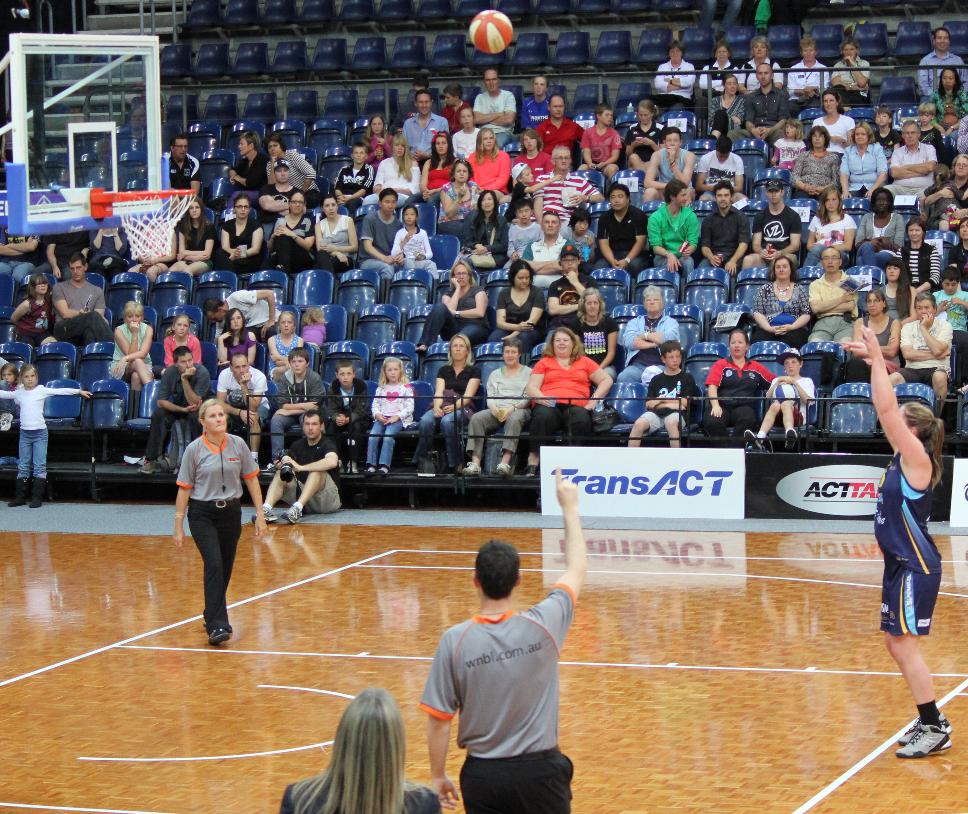 Samantha Norwood at a game on 20 October 2012.